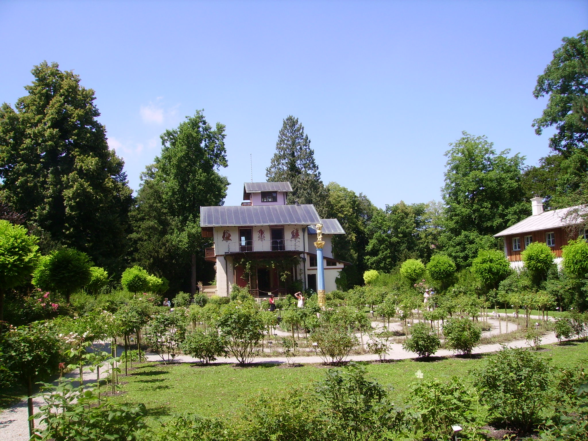 Roseninsel (Rose island) in Bavaria, Germany